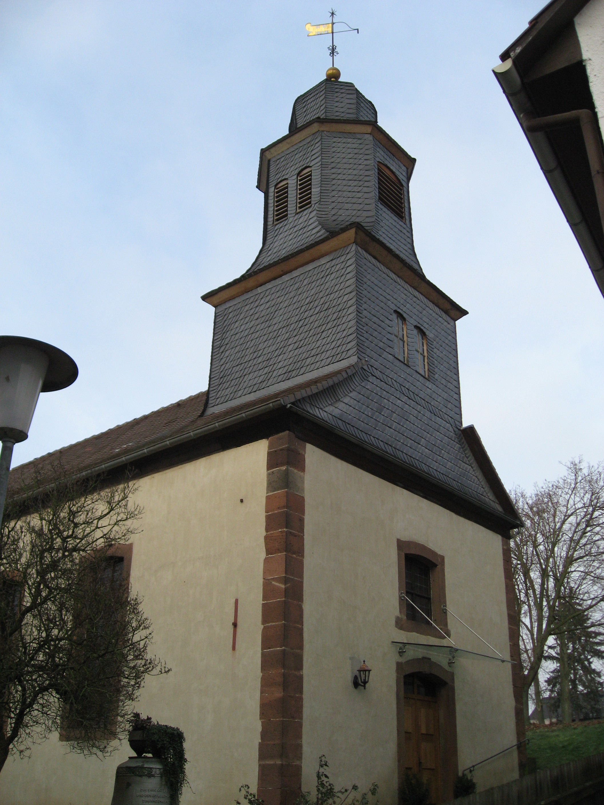 Churches in Borken-Lendorf